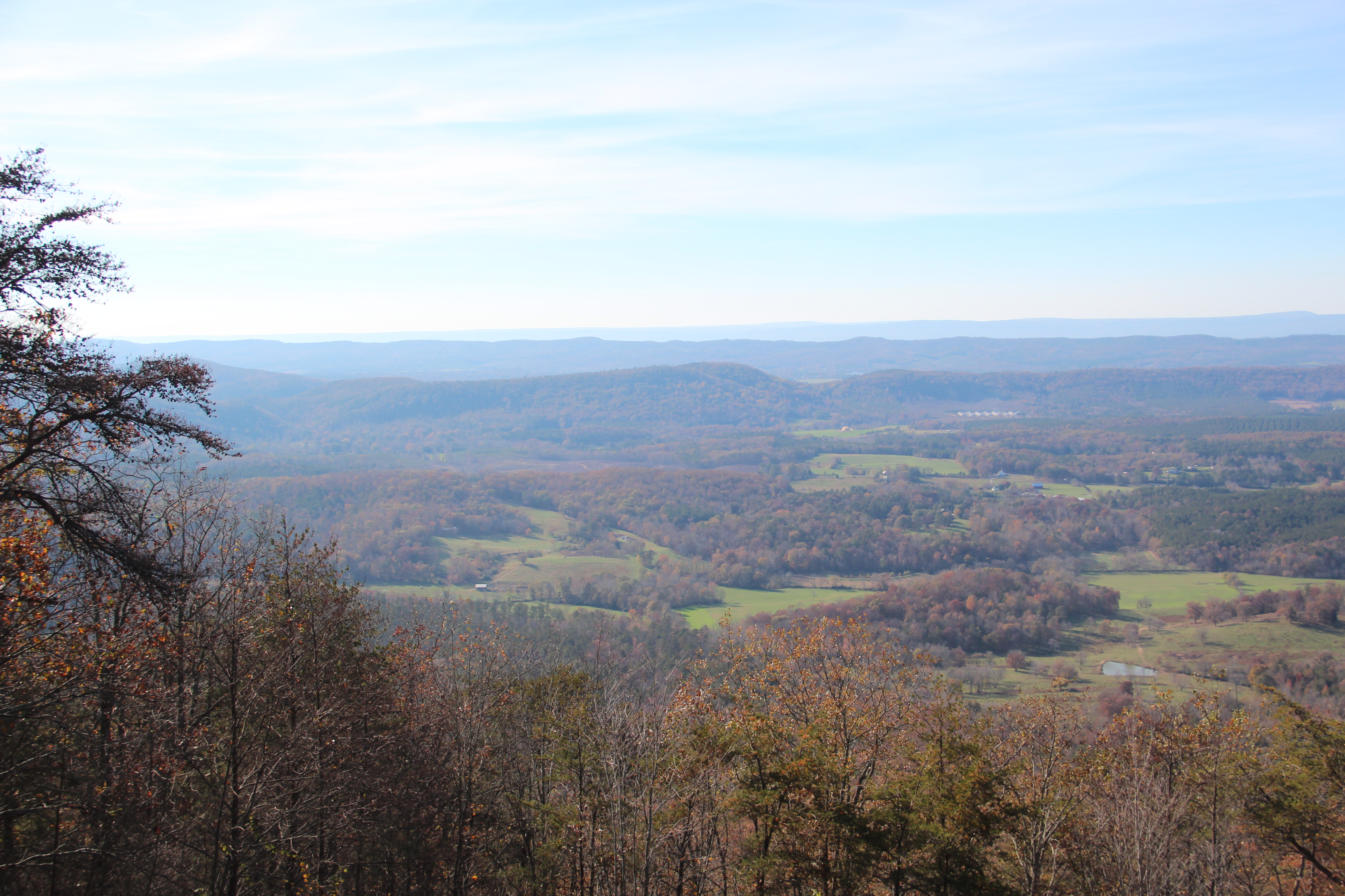 View from Johns Mountain Overlook